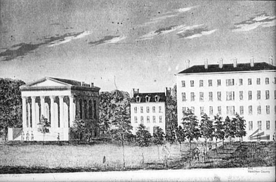 Sketch of Lane Theological Seminary (Cincinnati, OH) as it appeared shortly after opening in 1830.